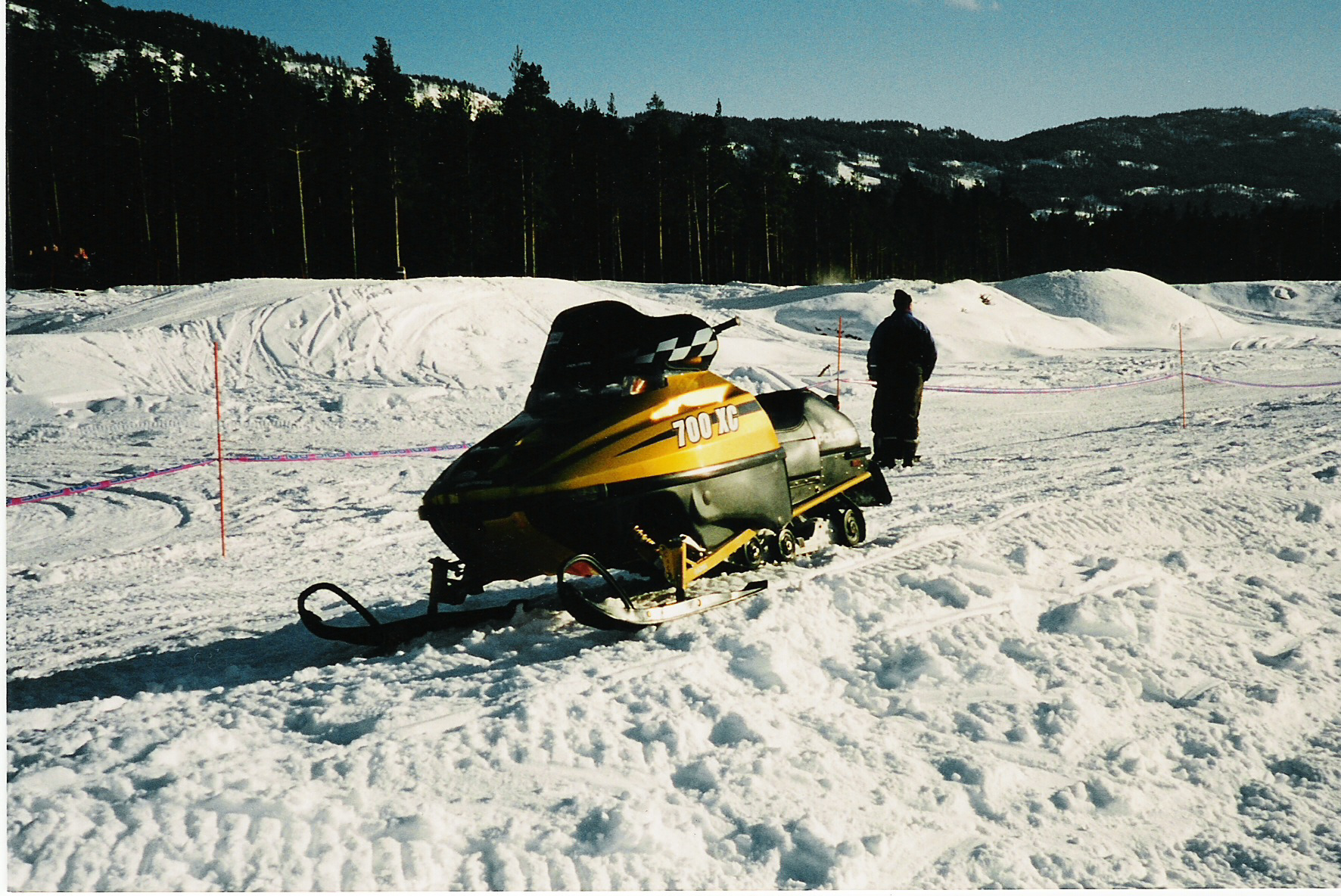 Polaris XC 700